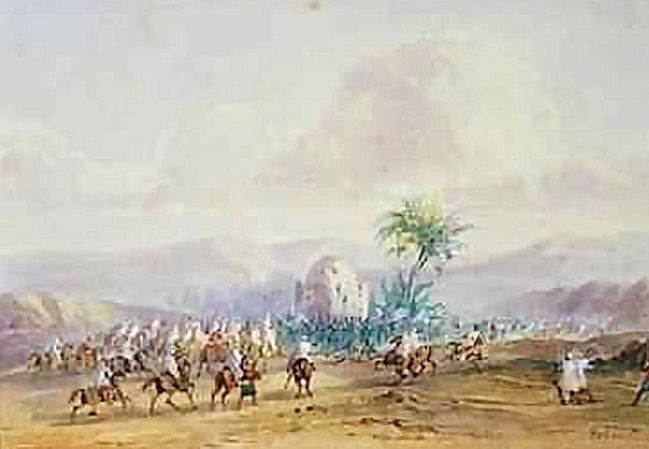 Battle_of_Sidi Brahim